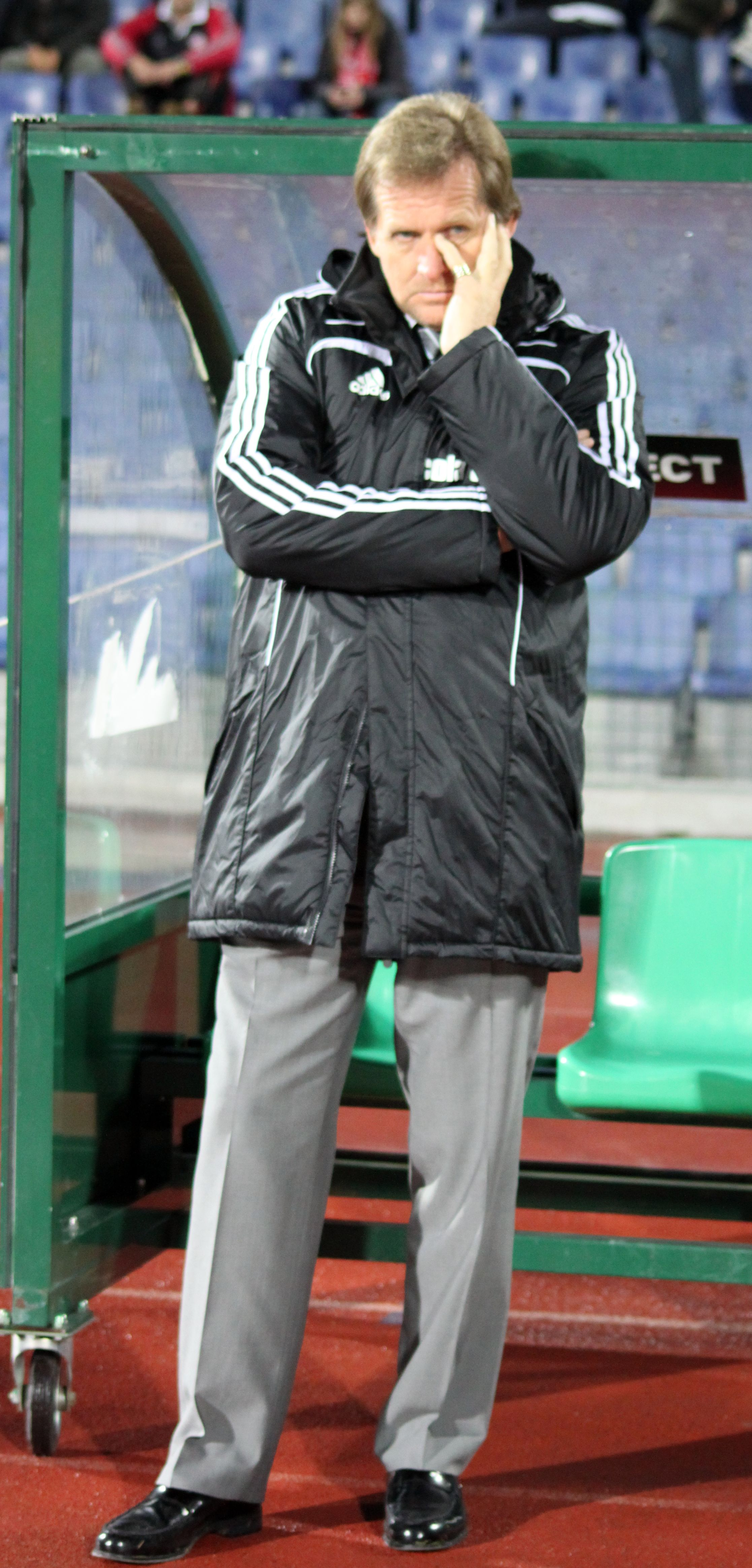 Bernhard Schuster (born 22 December 1959 in Augsburg) is a German football manager and former player, currently managing Turkish Super Lig side Beşiktaş. His nickname is "der Blonde Engel" (the Blonde Angel).